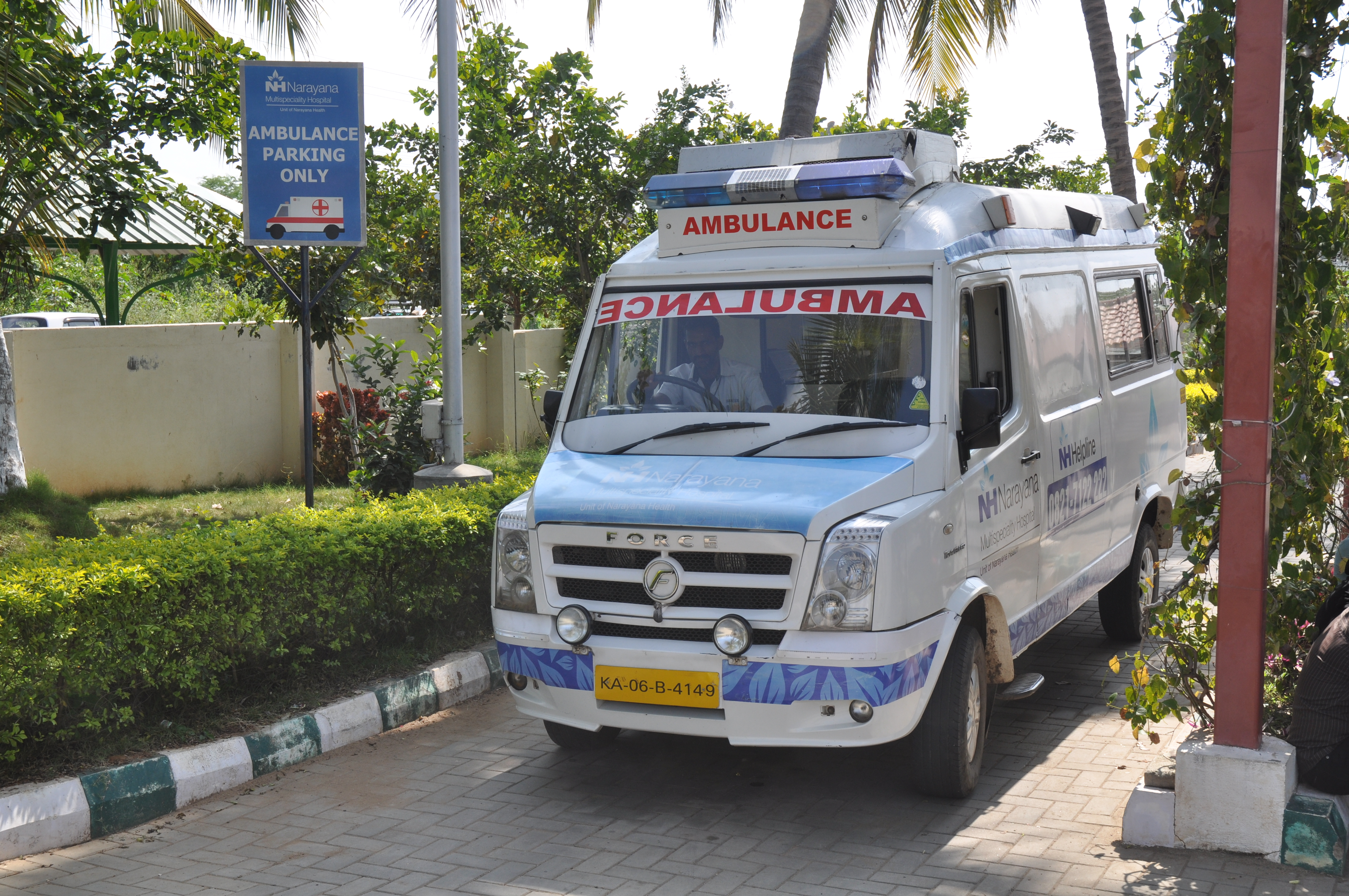 Model is a Force Traveller Abundance. Vehicle in the image belongs to Narayana Multispeciality Hospital, Mysore.